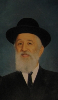 Rabbi Moses Joseg Rubin